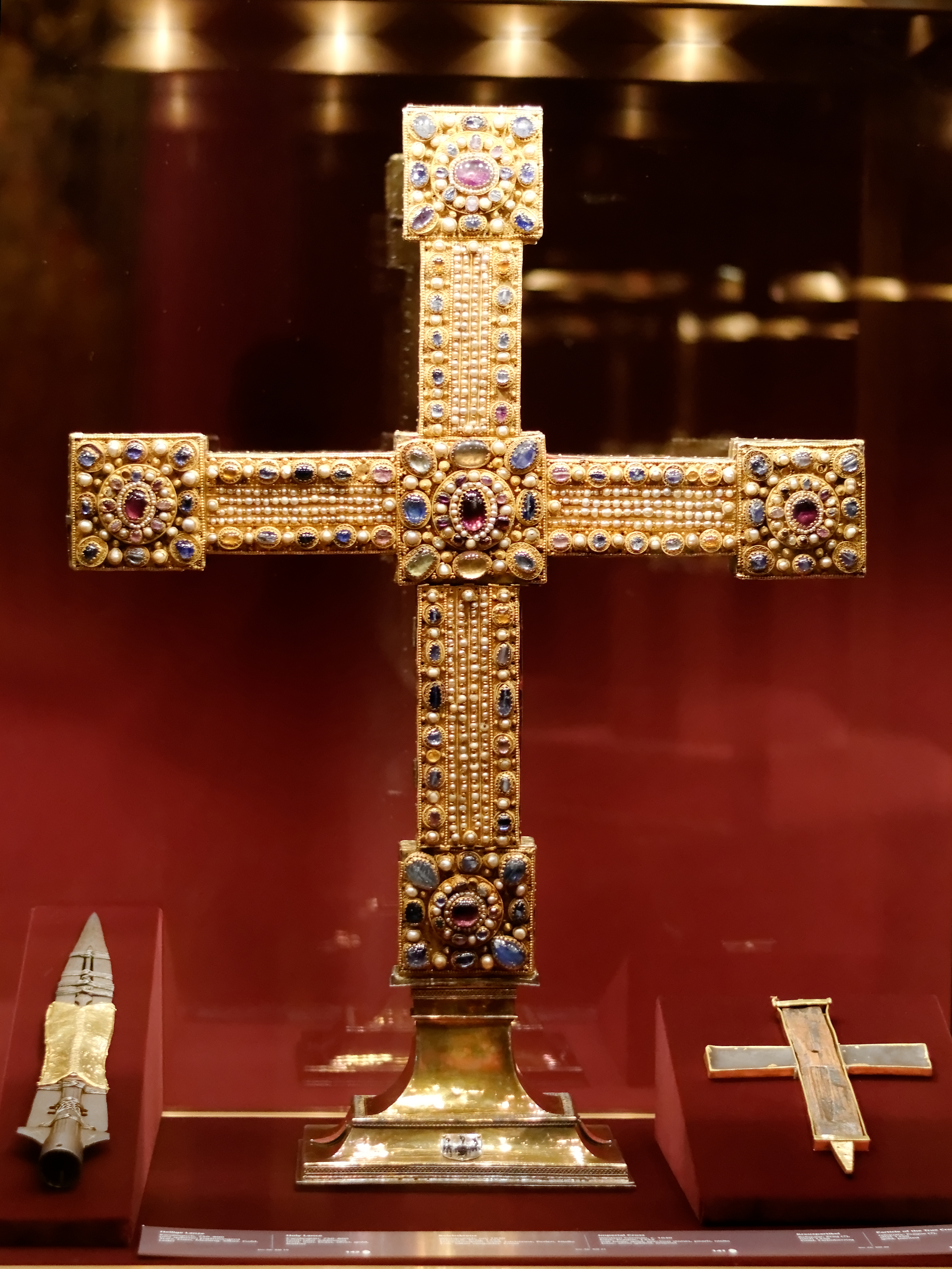 Imperial cross. Western Germany c. 1024/25 Oak base, recesses for relics, covered with red fabric and plated with gold foil Front: precious stones and pearls in raised mountings which could be lifted as plates Back and side walls: niello, iron pin H 77.5 cm, W 70.8 cm Base of the cross: Prague, 1352 Silver-gilt, enamel H 17.3 cm Overall height of the standing cross SK Inv. No. XIII 21